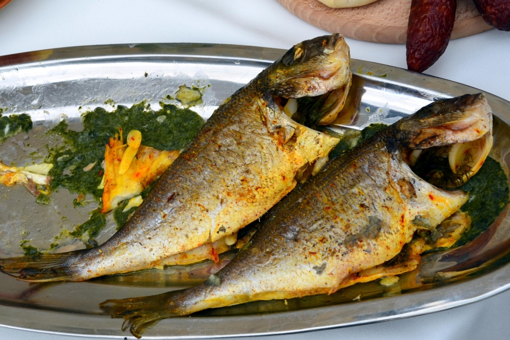 Die gebackene Forelle nach altpolnischer Art, Sanok